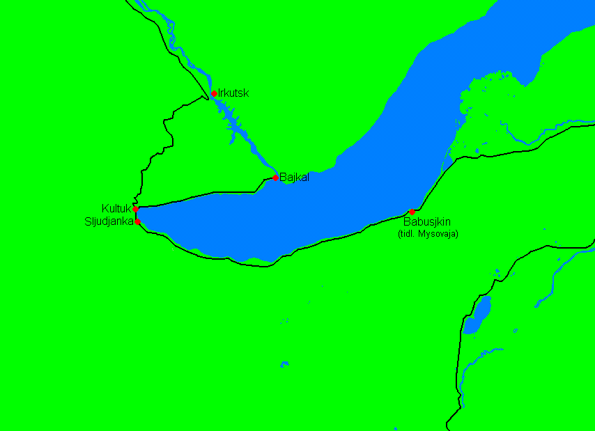 Map of the Circum-Baikal Railway